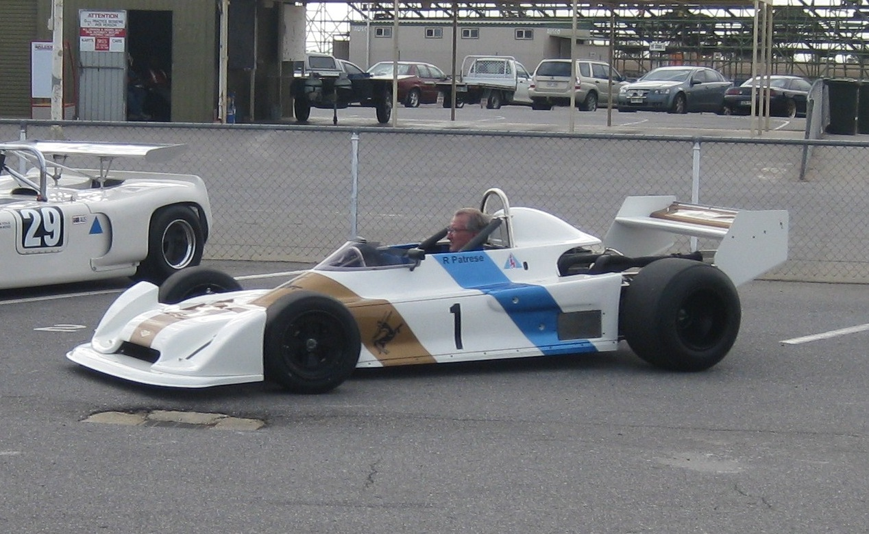 The Chevron B42 of Peter Whelan at Mallala Motor Sport Park on 3 April 2010.